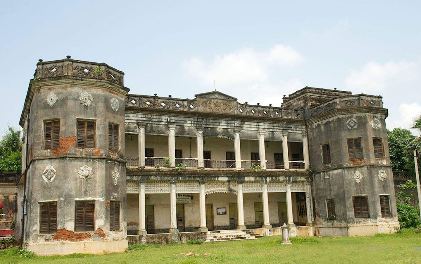 CHILKIGARH RAJBARI, JHARGRAM. Located 13 kms from Jhargram, having ruins of Royal Palace and Kanak Durga Temple. Dulung river is flowing in between. Dhabal Debs are the present King, who mostly live in Kolkata. Visiting this place in the winter is advisable.